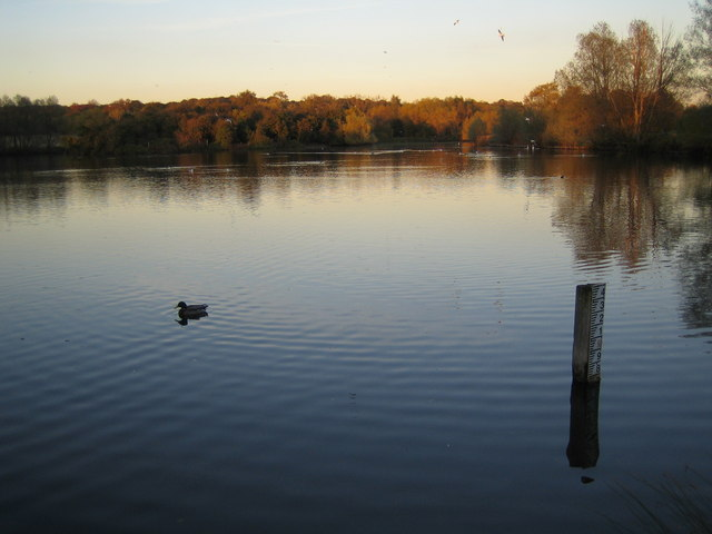 Lake at Hainault Forest Country Park — section in the London Borough of Barking and Dagenham. The Lake viewed at dusk with a solitary duck and the water depth gaugeboard. The Park's website is here